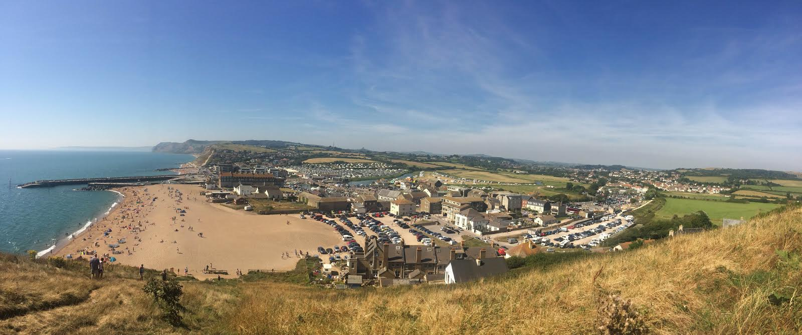 Panorama of West Bay, Dorset from the East Cliff.